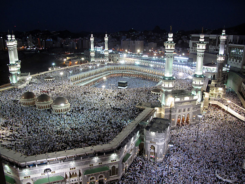 Worshippers flood the Grand mosque, its roof, and all the areas around it during night prayers in Mecca